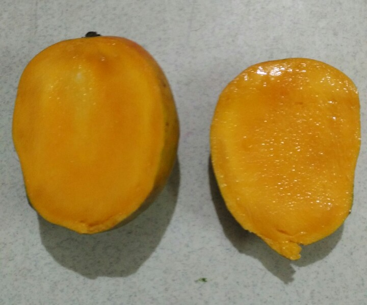 Raspuri Mangoe Sliced